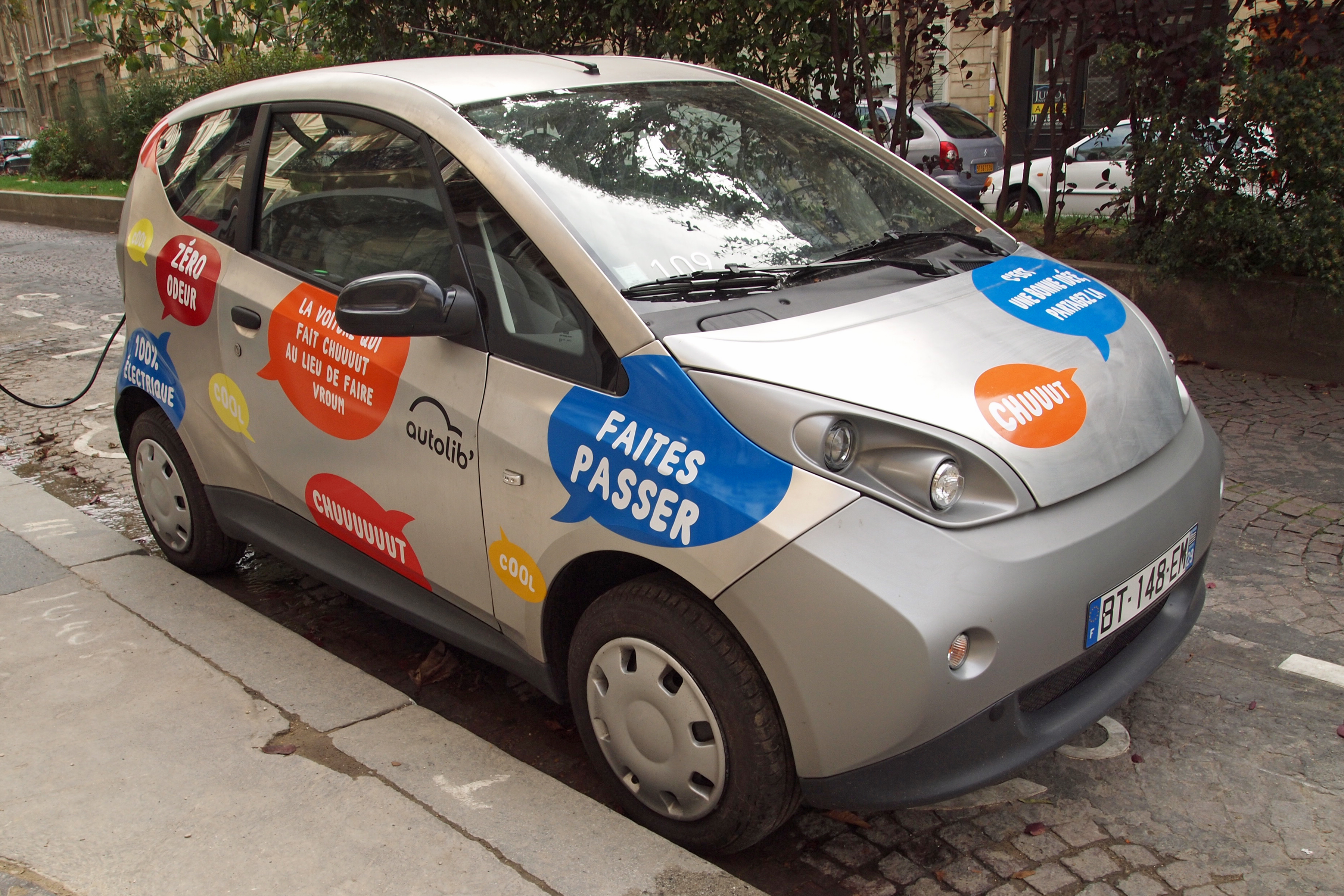 Bolloré BlueCar (electric car) recharging at a Autolib Kiosk, Avenue Trudaine, Paris IX France